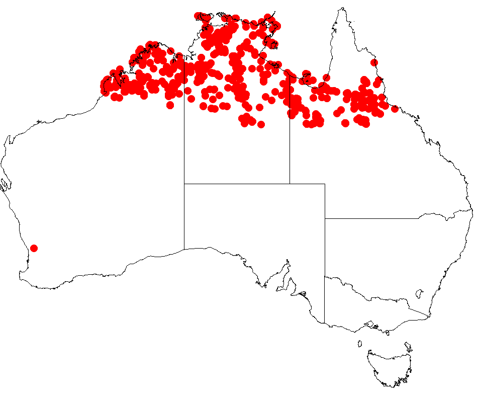 Hakea arborescens Occurrence data downloaded from Australasian Virtual Herbarium on 22 November 2018 using